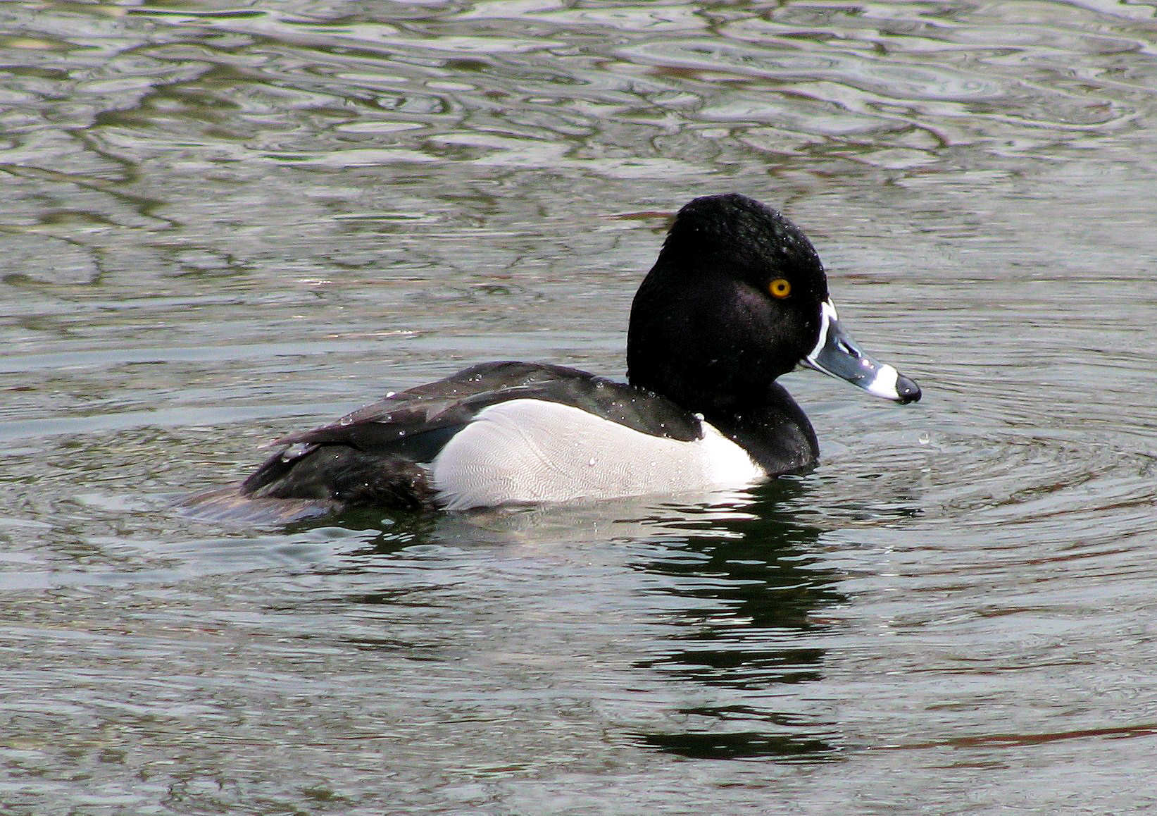 Aytha collaris ring necked duck